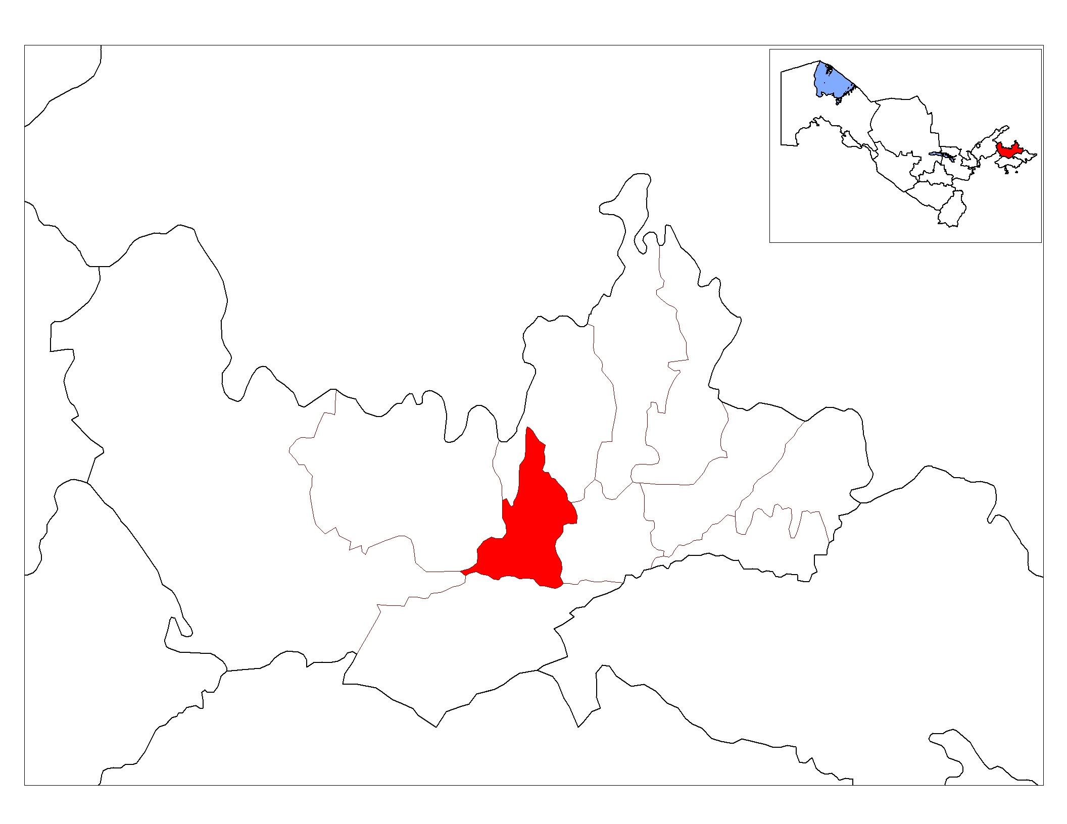 Location map of To’raqo’rg’on District in Namangan Province